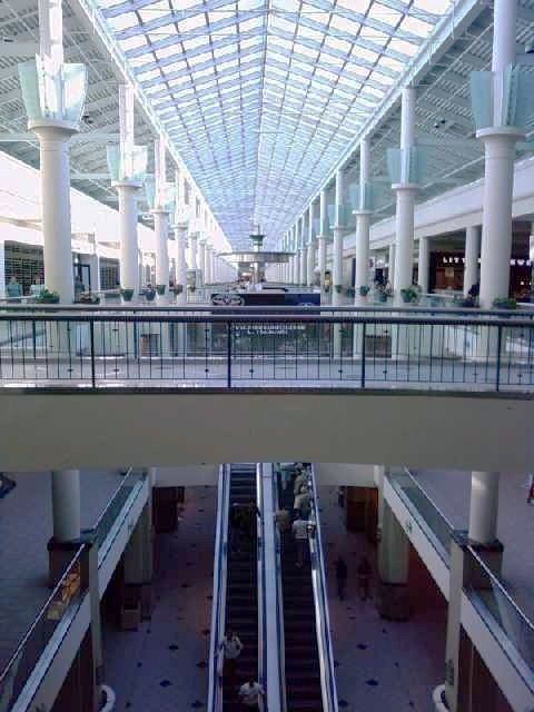 Interior of Emerald Square Mall, North Attleborough, MA